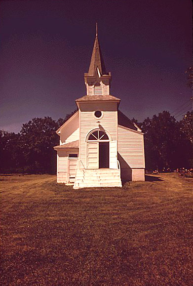 Original caption: "St. Pietro's Lutheran church at Grygla is 75 years old, 06/1973." Photographed by Jonas Dovydenas.